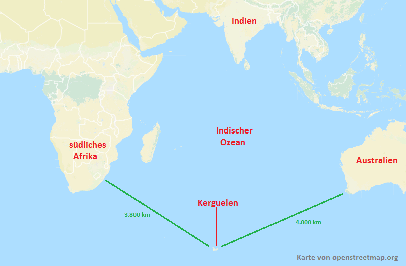 Indian Ocean with German indications